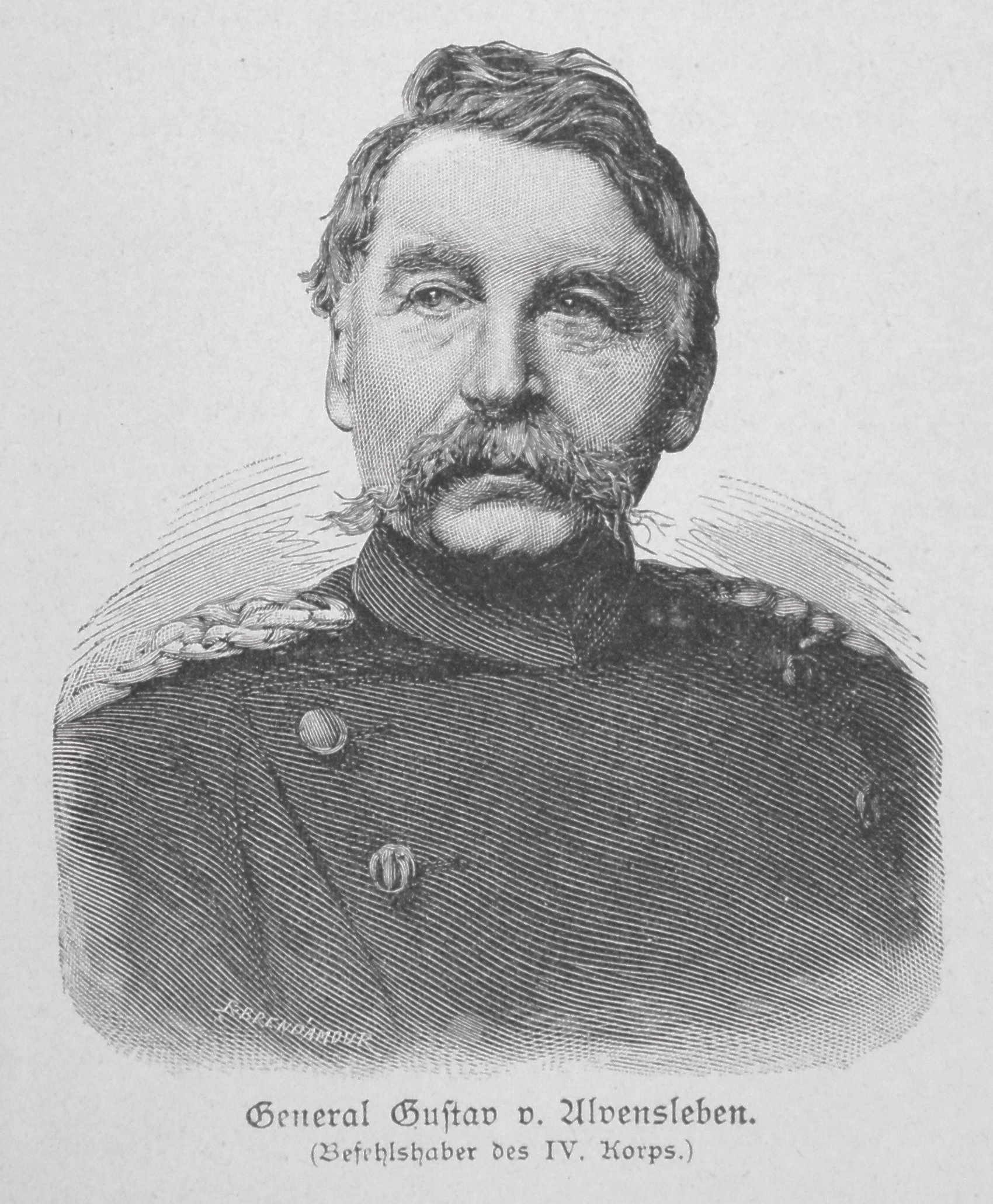 general Gustav von Alvensleben